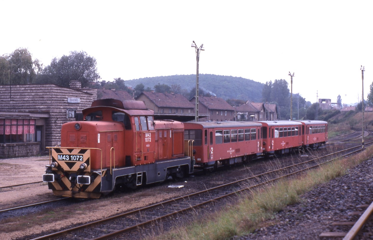 More than likely there was a shortage or failure of Bzmot power cars meaning on this day at least an M43 was working the branch from Kazincbarcika to Rudabánya. As can be seen from the photo, the line is in the middle of a coal mining district. Train 35313,17:22 Rudabánya to Kazincbarcika taken on 21 September 1996.